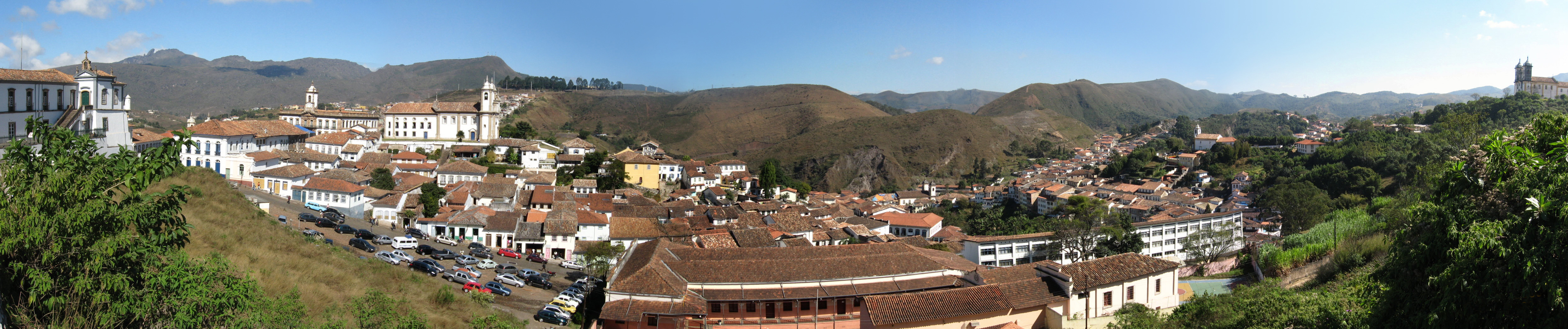 Ouro Preto city view 180.